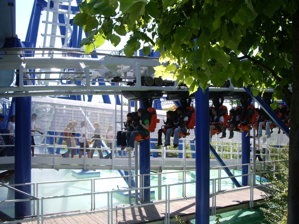 detail of Blue Tornado rollercoaster in Gardaland, Italy